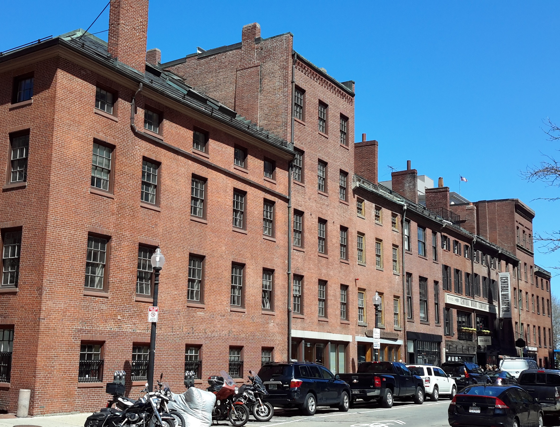 146-176 Milk Street in Boston, Massachusetts, in 2016. The buildings featured here, which were originally part of a row of 54 warehouses on Central Wharf, were added as part of the Custom House District to the National Register of Historic Places in 1973.